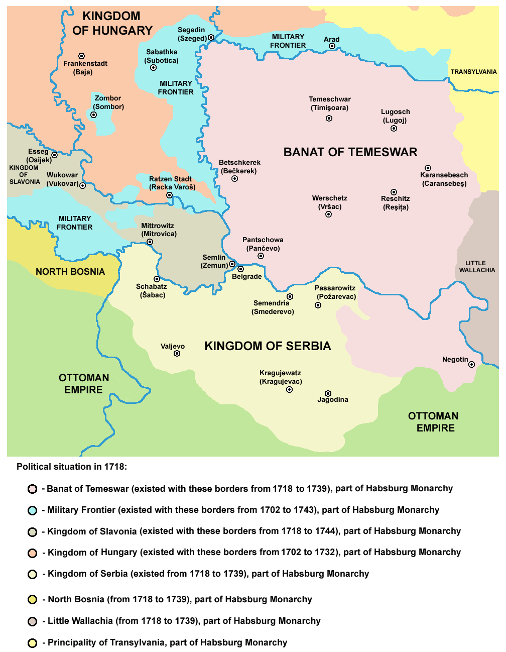 Map of the Banat of Temeswar, Kingdom of Serbia and Military Frontier in 1718. Serbian: Мапа Тамишког Баната, Краљевине Србије и војне границе 1718. године.